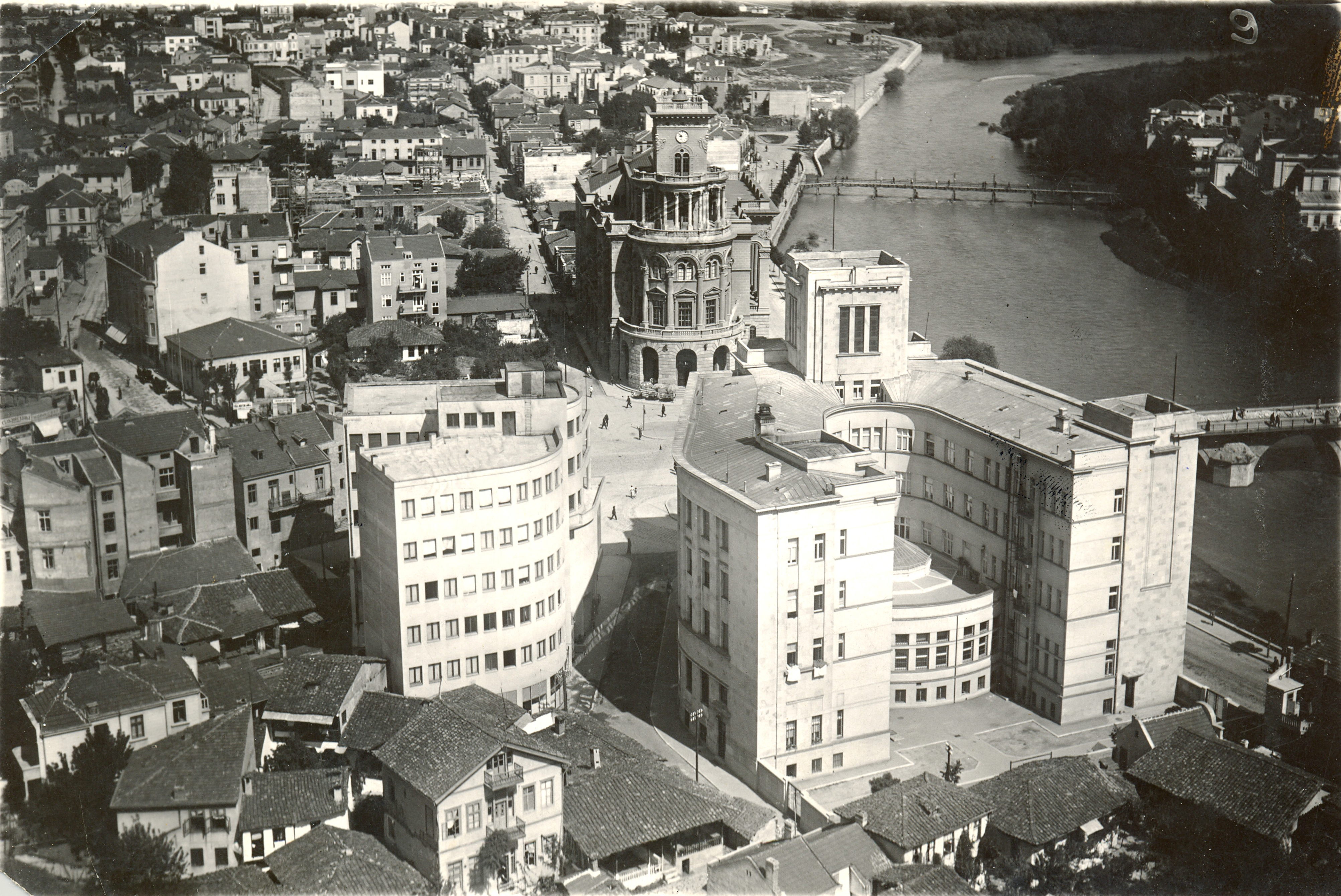 A view of the present Macedonia Square, Skopje. This media file is produced by Wikipedian in Residence in Category:Wikipedian in Residence at DARM in 2017.